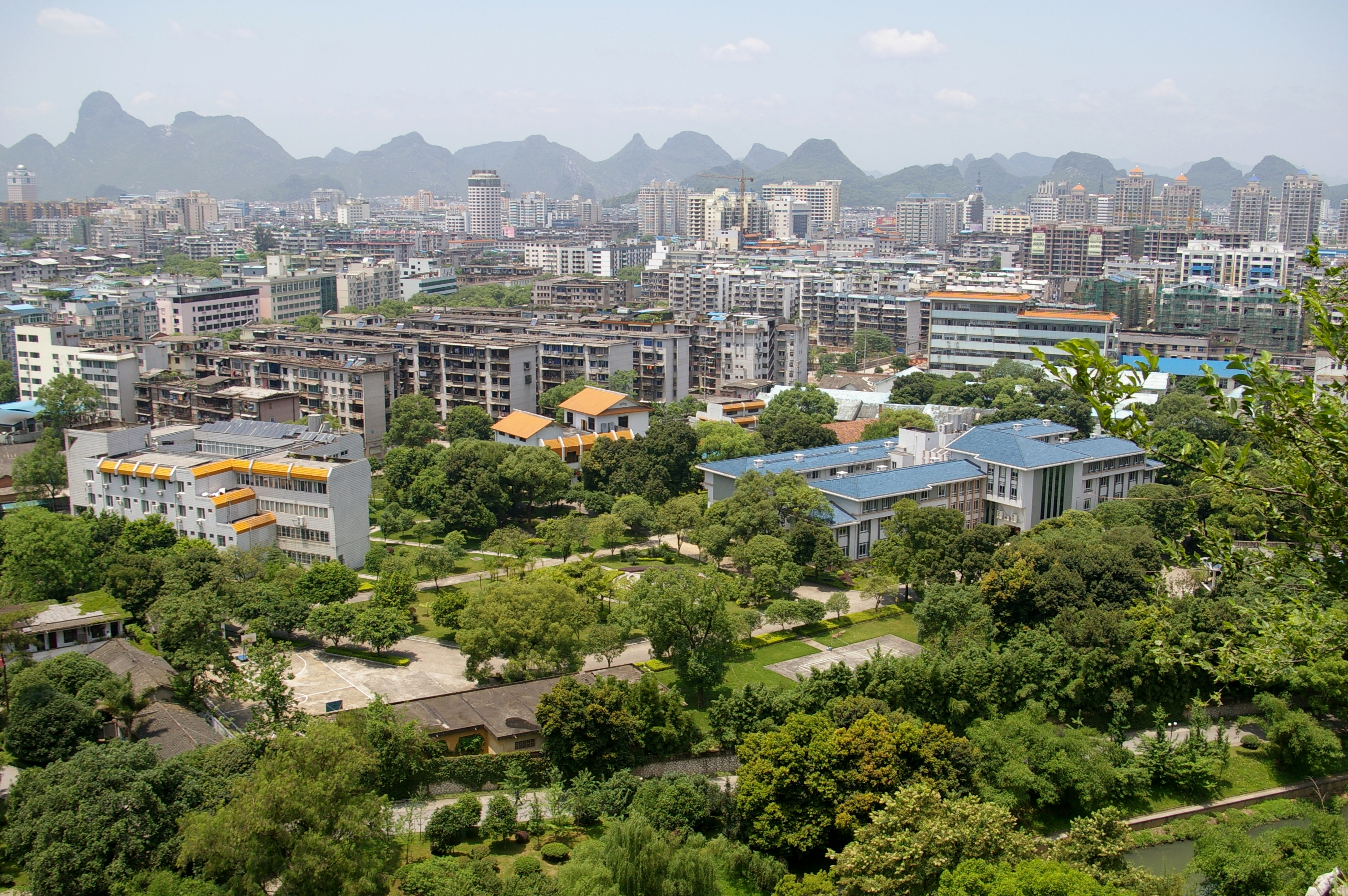 Guilin in China